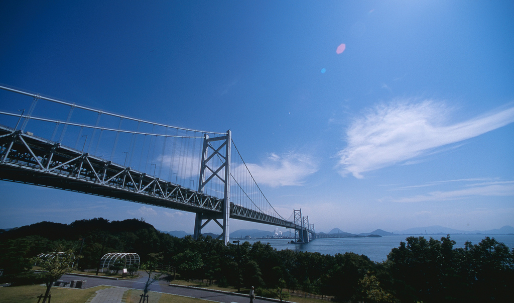 The Great Seto Bridge linking Honshū and Shikoku islands in Japan